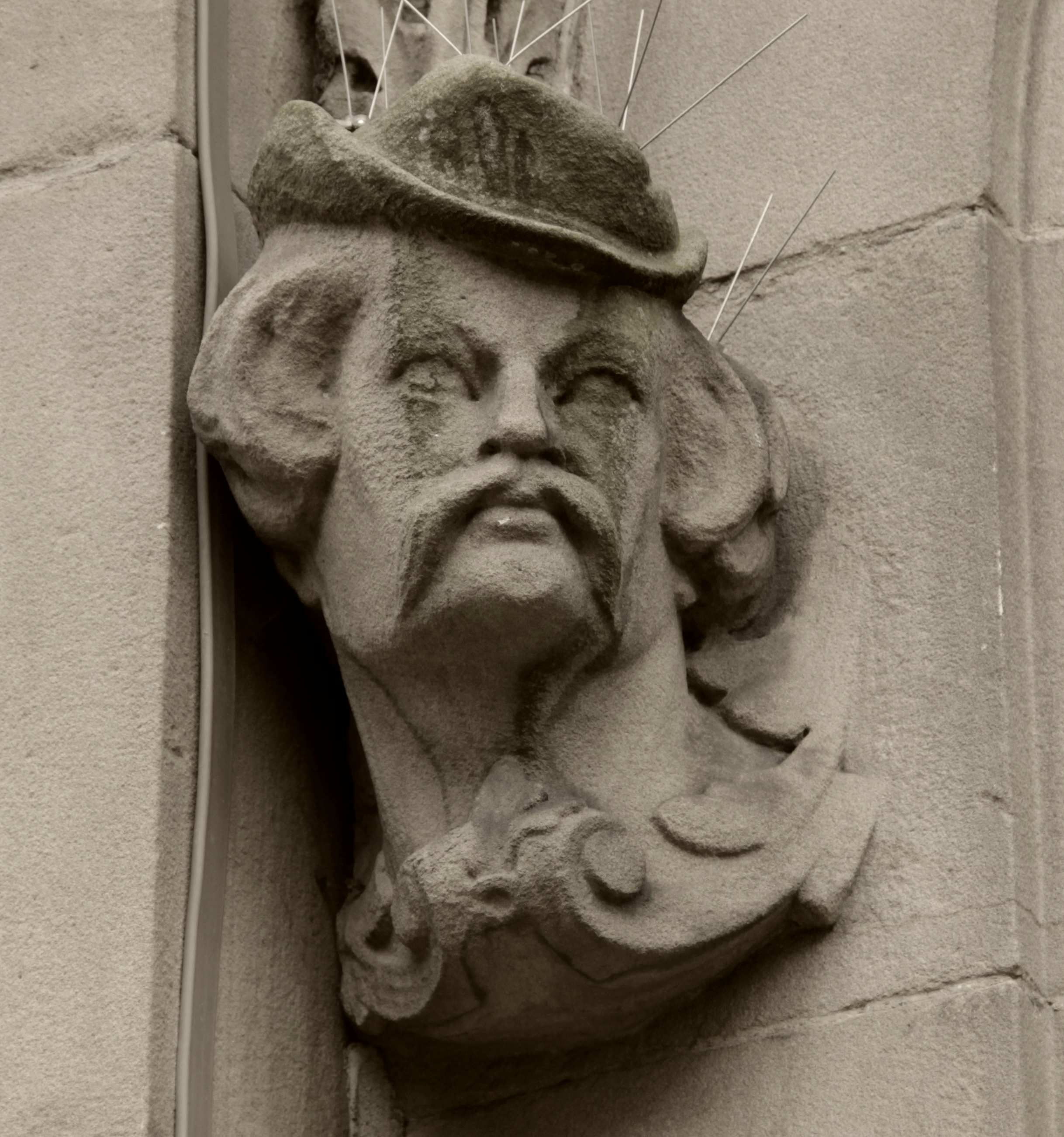 Sculpture on former Queen's Hotel, Barnsley, West Yorkshire, England. It is a Grade II listed building, designed by Wade & Turner, and completed in 1874. The stone carving was executed by Benjamin Payler. As of 2017 the building had been converted to offices. This is part of a set of three label stop heads by the same sculptor, on the adjacent building in Regent Street. The lower framing on the right-hand head implies a connection with the framing of the keystone heads on the Queen's Hotel. On the left, a bumptious young man-about-town is apparently making cheeky overtures to a woman above his class on the right, but she is frowning and seems to be rejecting him. Between them is Old Father Time, looking on; this has happened before in the world. However this set is not so simple, and there is more than one possible interpretation. The woman on the right is recognisable as Catherine Mawer in her fifties, when she had employed Payler as an apprentice in the 1850s. So the young man on the left could possibly be identified as a mature and successful Payler in the 1870s, perhaps still attempting to please his unsatisfied master with his latest work on the Queen's Hotel. This is a cropped version of File:Former Queens Hotel Barnsley 023a.jpg.